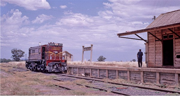 48-class diesel shunts past Kywong platform on 15 February, 1970